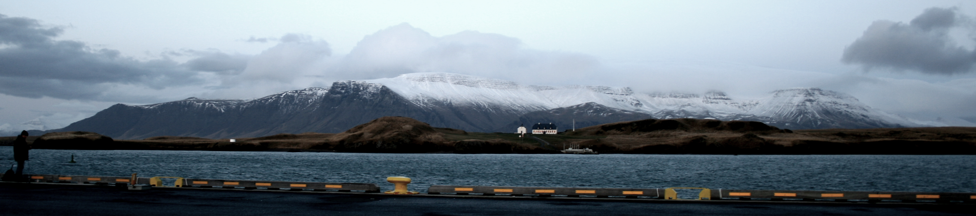 Awakened by the hands of Autumn The hands which made me sleep Was a shadow vague yet deep A creature, spine of the essence Drifting in the wind, clad as Sin The force behind my cause The hands that fold me within Awakened beneath a restless sky By mountains which darken the day Shadows, spiritual dust of my fathers - The heart and soul of my way - A creature, spine of the essence Drifting in the wind, clad as Sin The force behind my cause Grim token of the path within The Winterway Leads us through the coldest night The Winterway To be walked by all men of might Behold the ice on the big seas The summits and the naked trees Ashore the bay through the rough Winterway